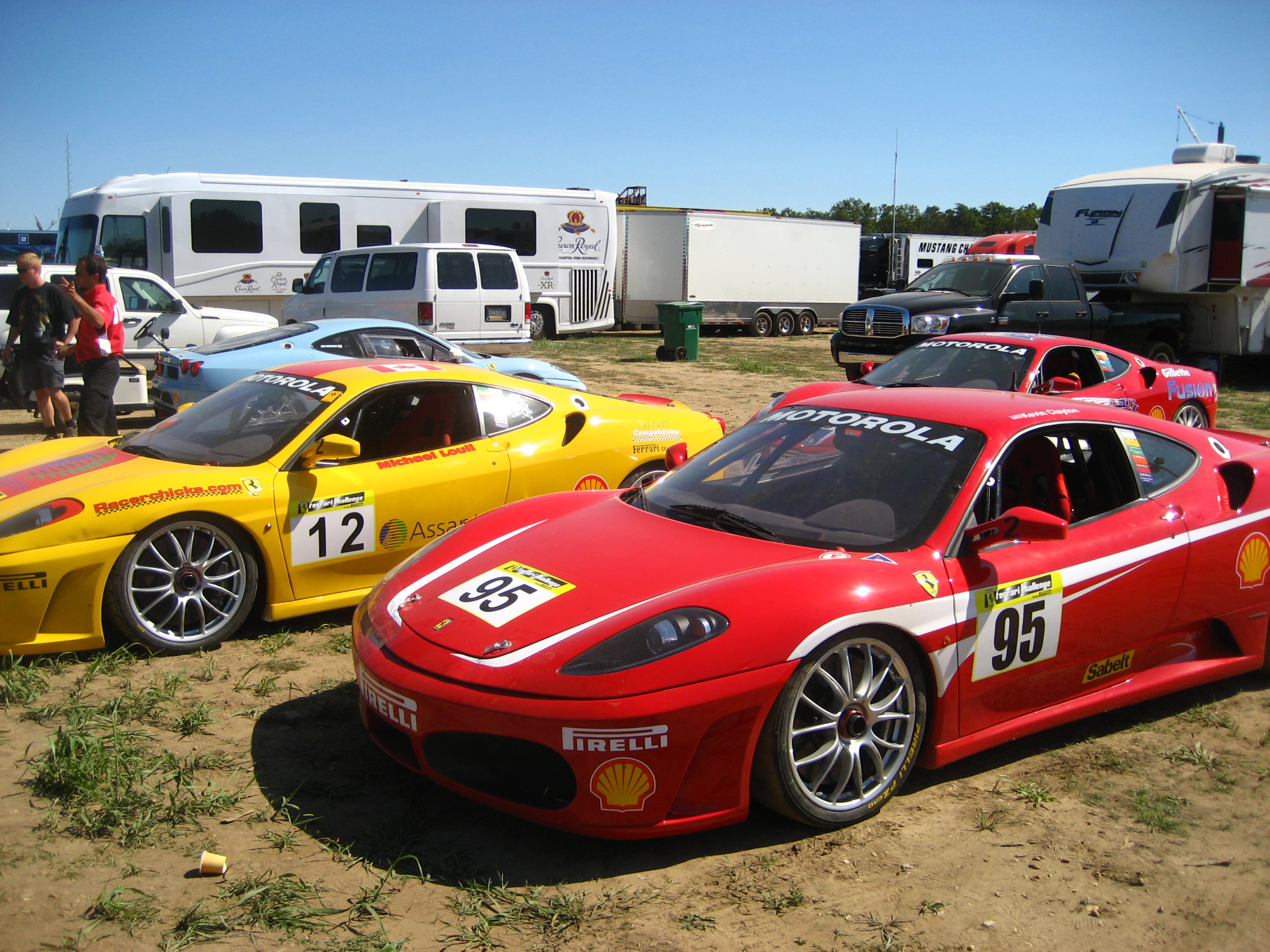 Several Ferrari F430 Challenges at New Jersey Motorsports Park.